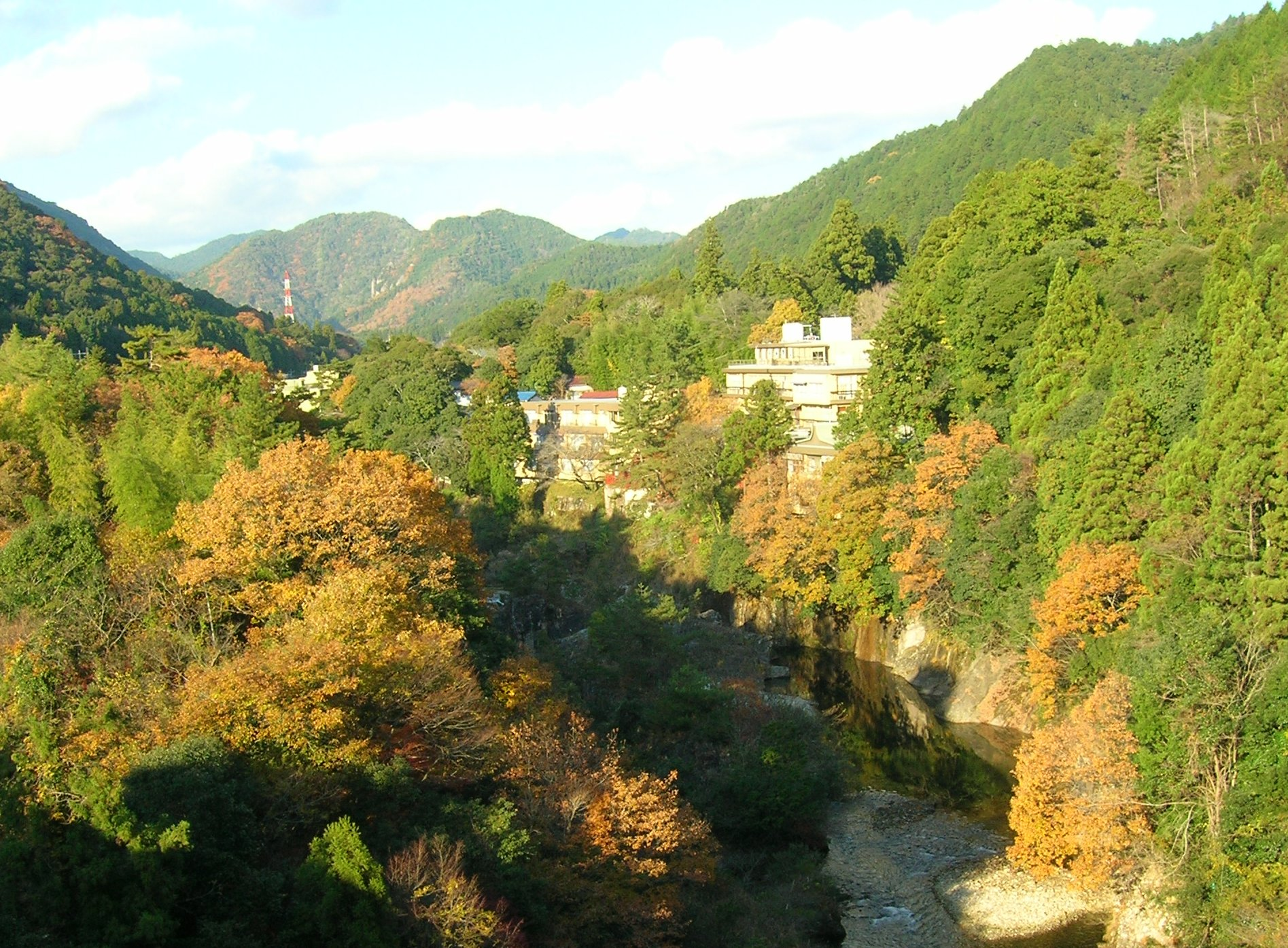 Distant view of Yuya Onsen. Loc: Shinshiro city, Aichi Prefecture, Japan. 湯谷温泉 (愛知県)の遠景。 撮影場所 愛知県新城市